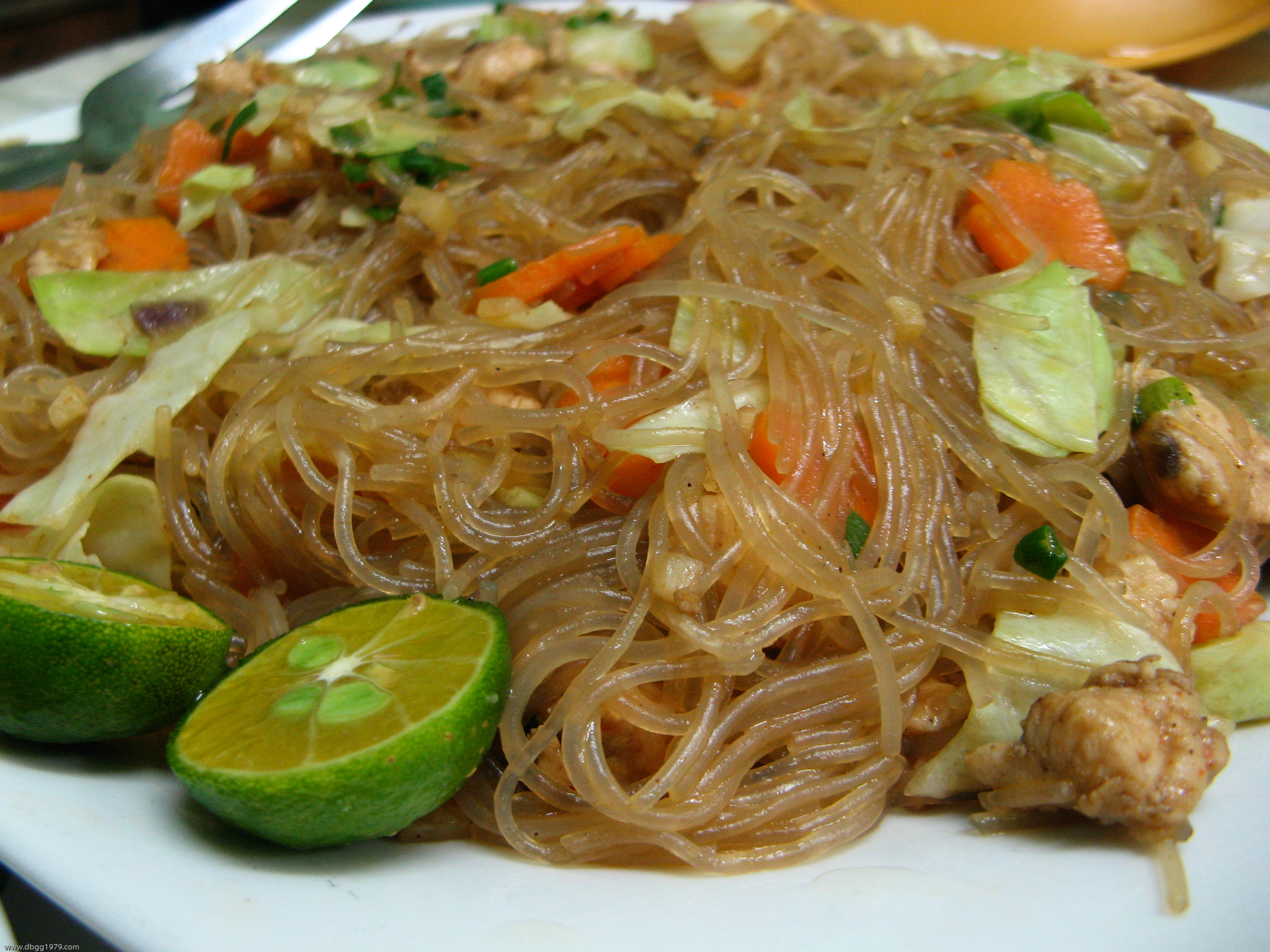 Check out my blog at